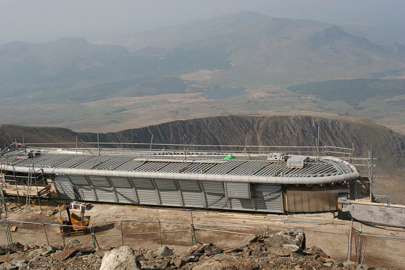 Completing construction work on Hafod Eryri, Snowdon summit, May 2008